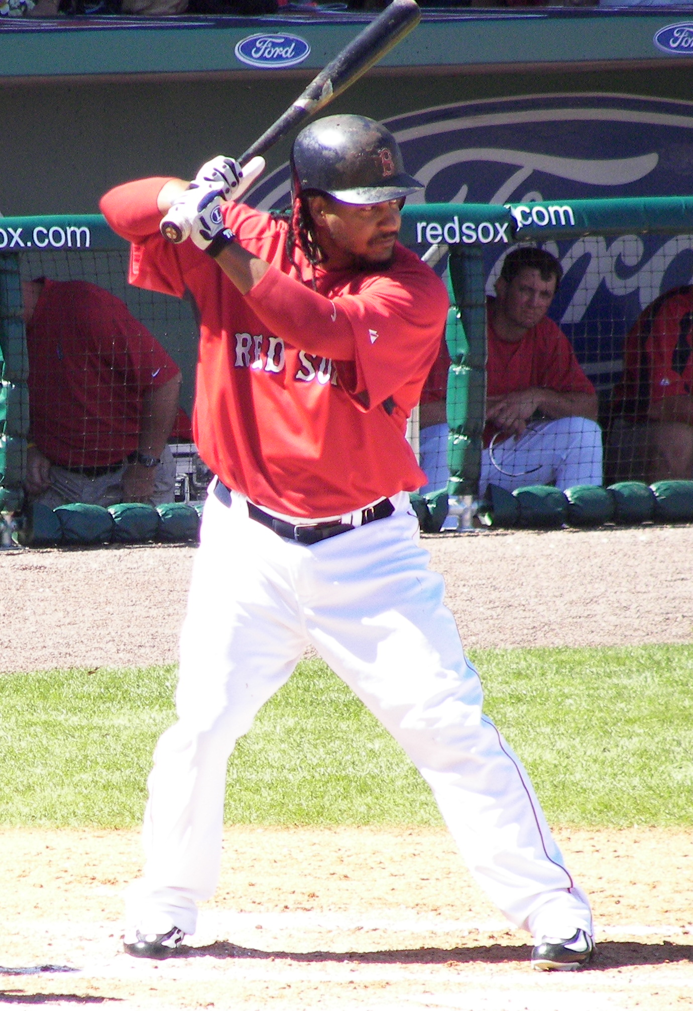 Boston Red Sox outfielder Manny Ramírez batting during a Red Sox/Los Angeles Dodgers spring training game at City of Palms Park in Fort Myers, Florida.